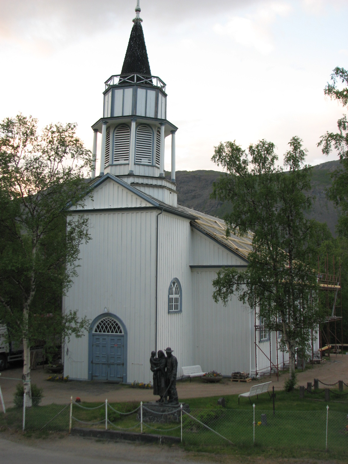 Kåfjord church, Alta municipality, Norway